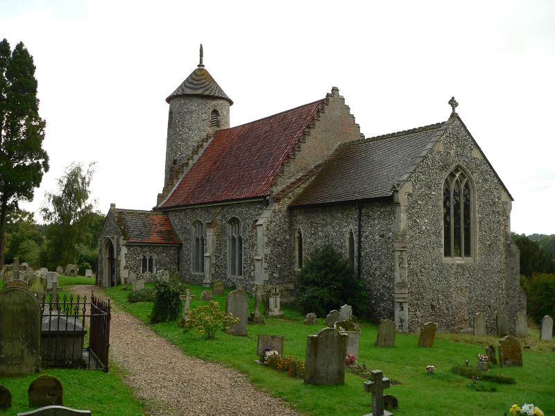 Bawburgh St Mary and St Walstan